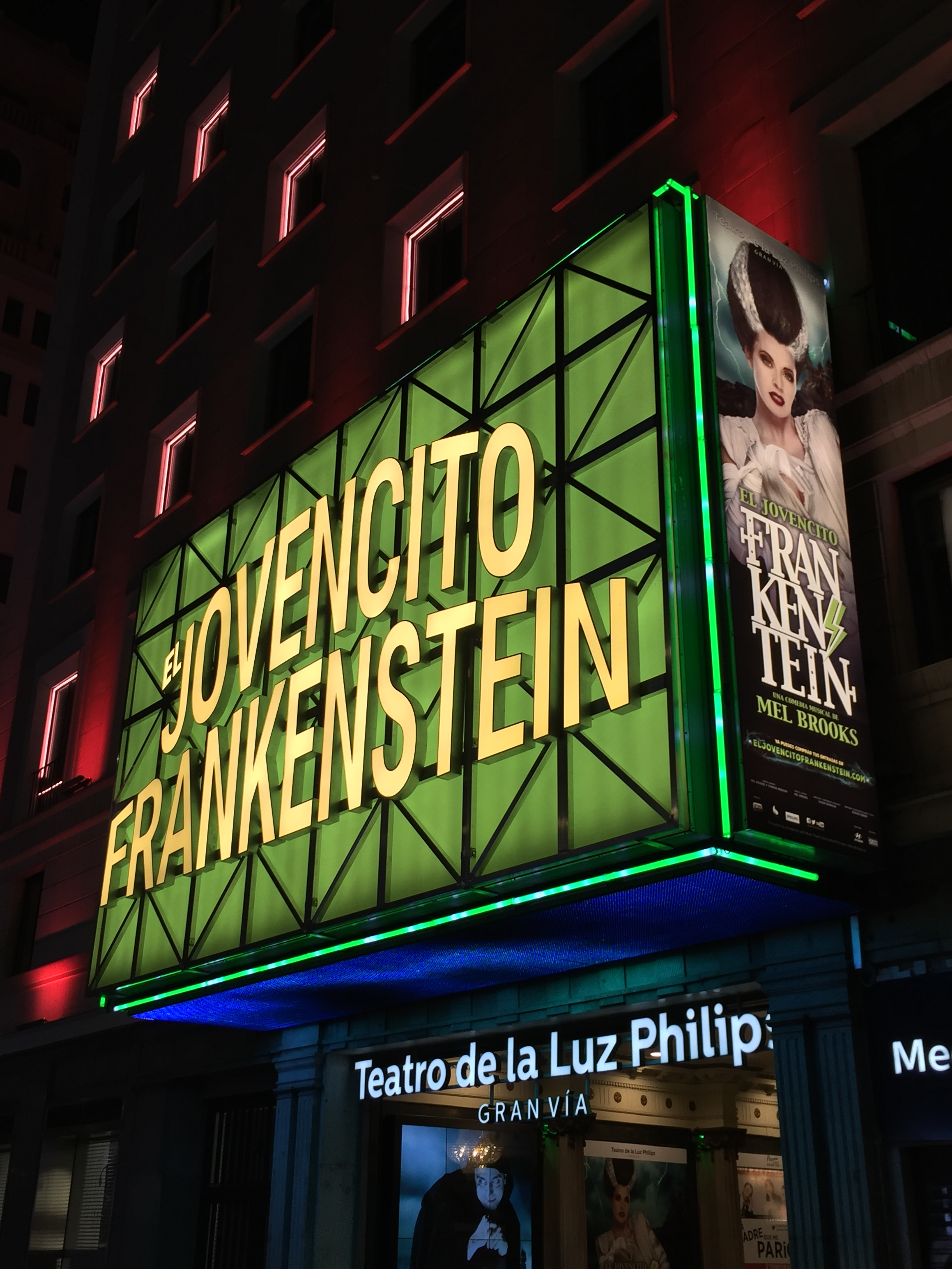 Young Frankenstein at Teatro Gran Vía in Madrid